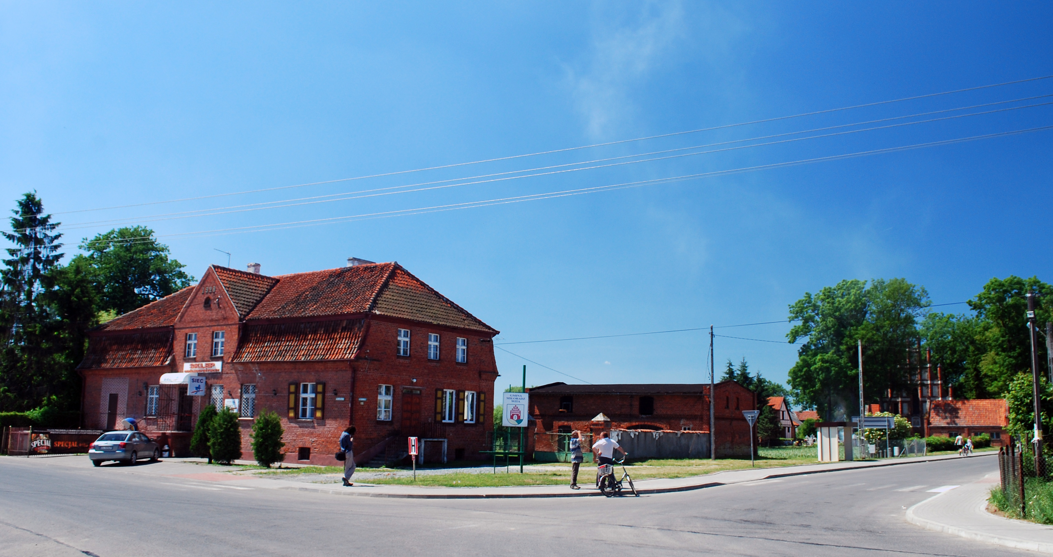 This photo of Kashubia, Pomerelia and Żuławy Wiślane was taken during Wikiekspedycja 2010 set up by Wikimedia Polska Association. You can see all photographs in category Wikiekspedycja 2010. The making of this document was supported by Wikimedia Polska. Ulica w wsi Miłoradz.